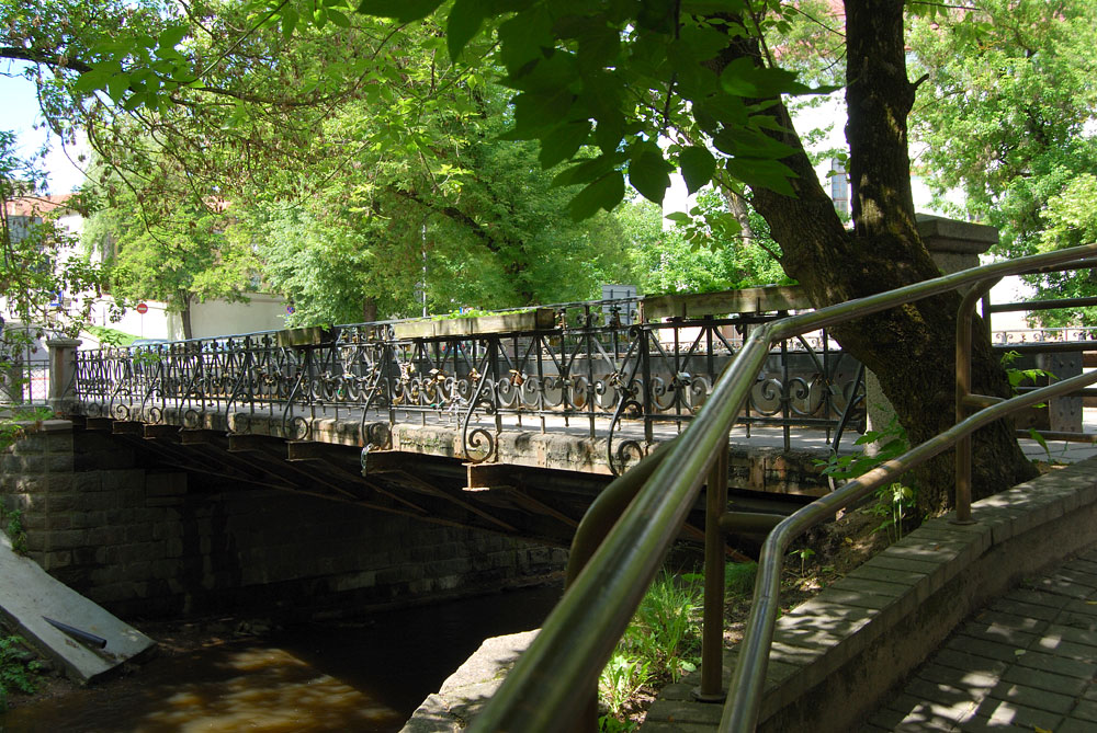 Bridge in Uzupis, Vilnius, Lithuania